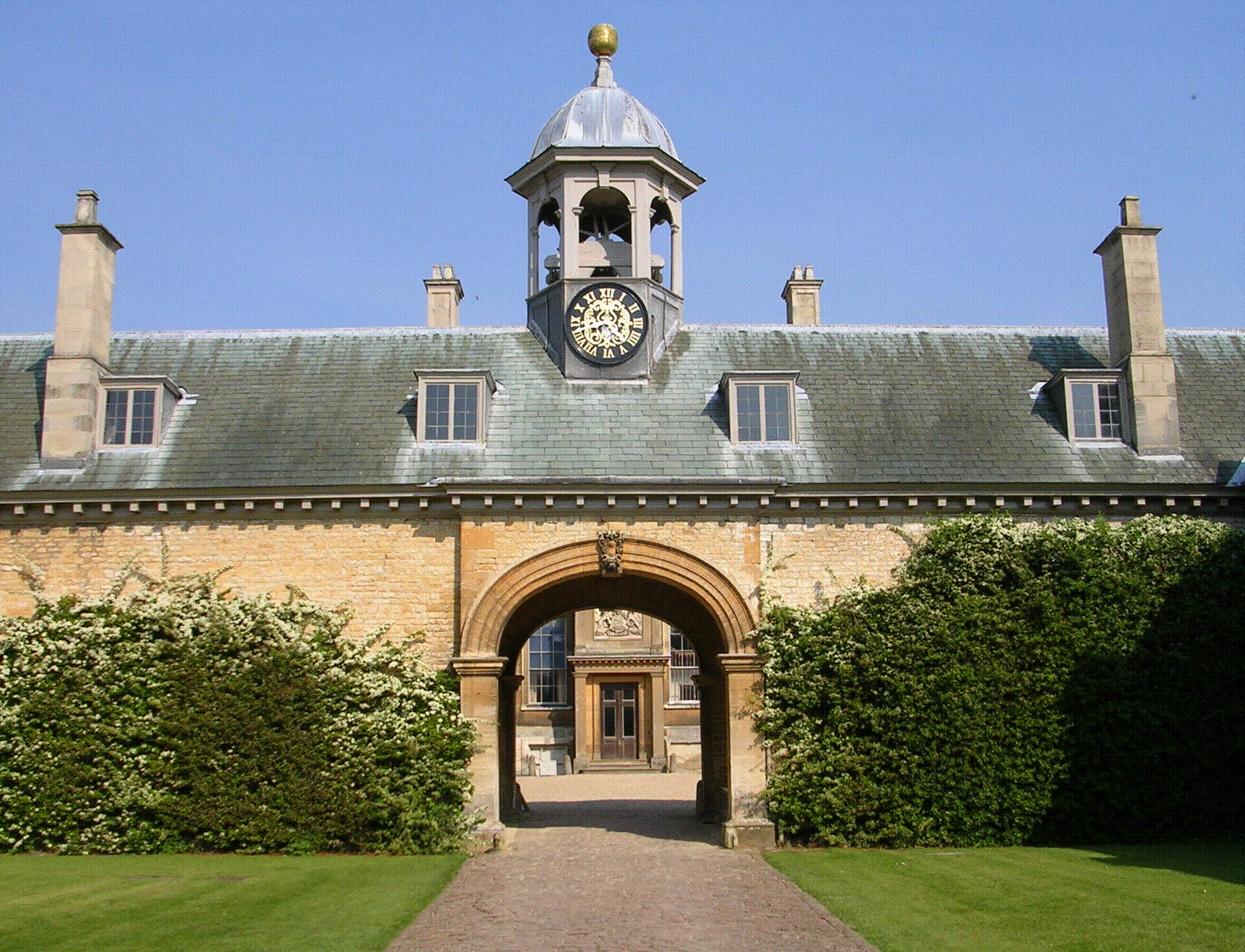 Belton House, England.